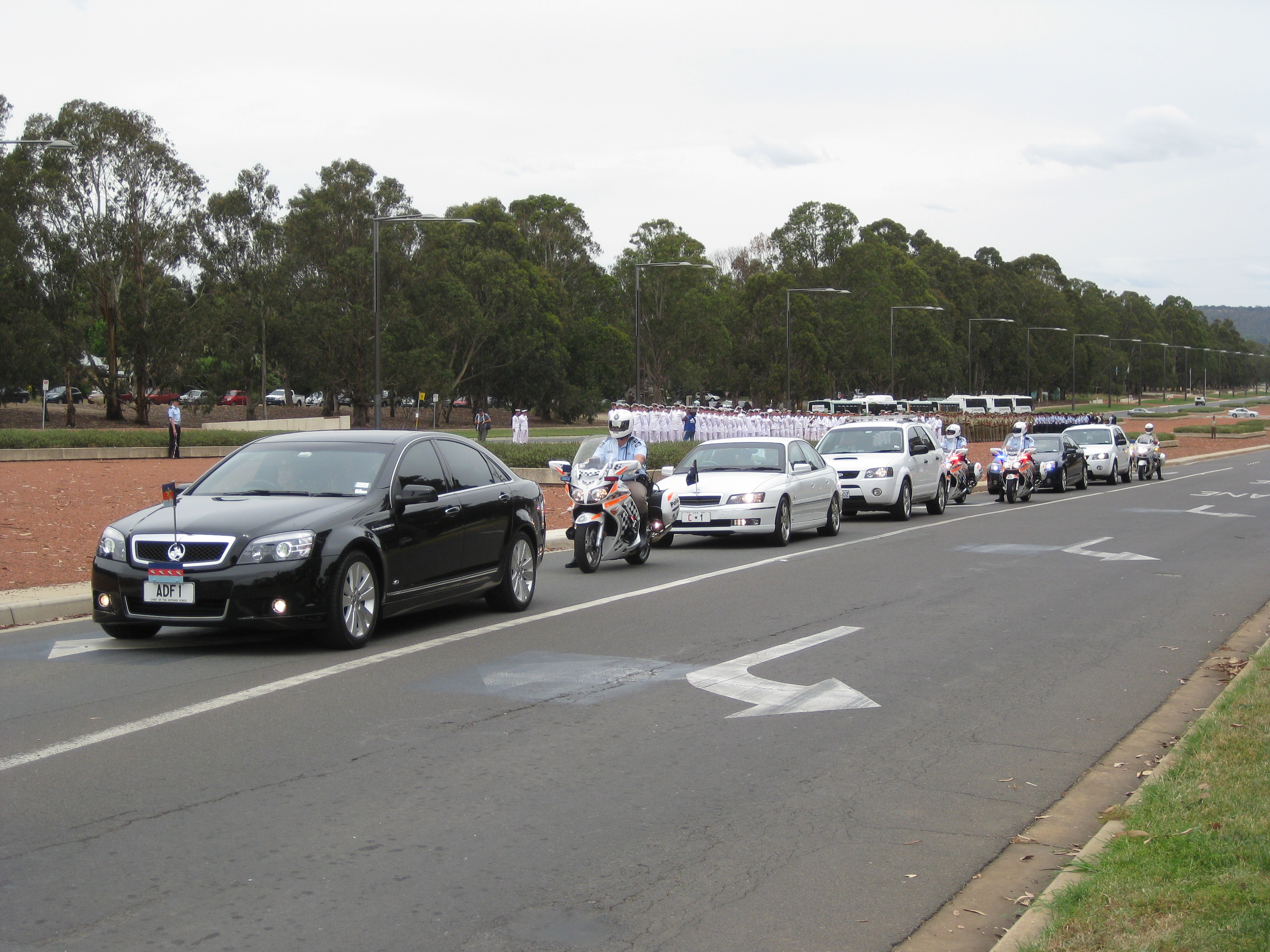 The motorcade transporting the senior members of the official party to the Operation Catalyst Welcome Home Parade at the Australian War Memorial on 21 November 2009. The black car at the left with the numberplate ADF1 carries the Chief of the Defence Force, Air Chief Marshal Angus Houston, the white car behind it with the numberplate C1 carries Prime Minister Kevin Rudd and the dark blue car second from the right carries Governor General Quentin Bryce.